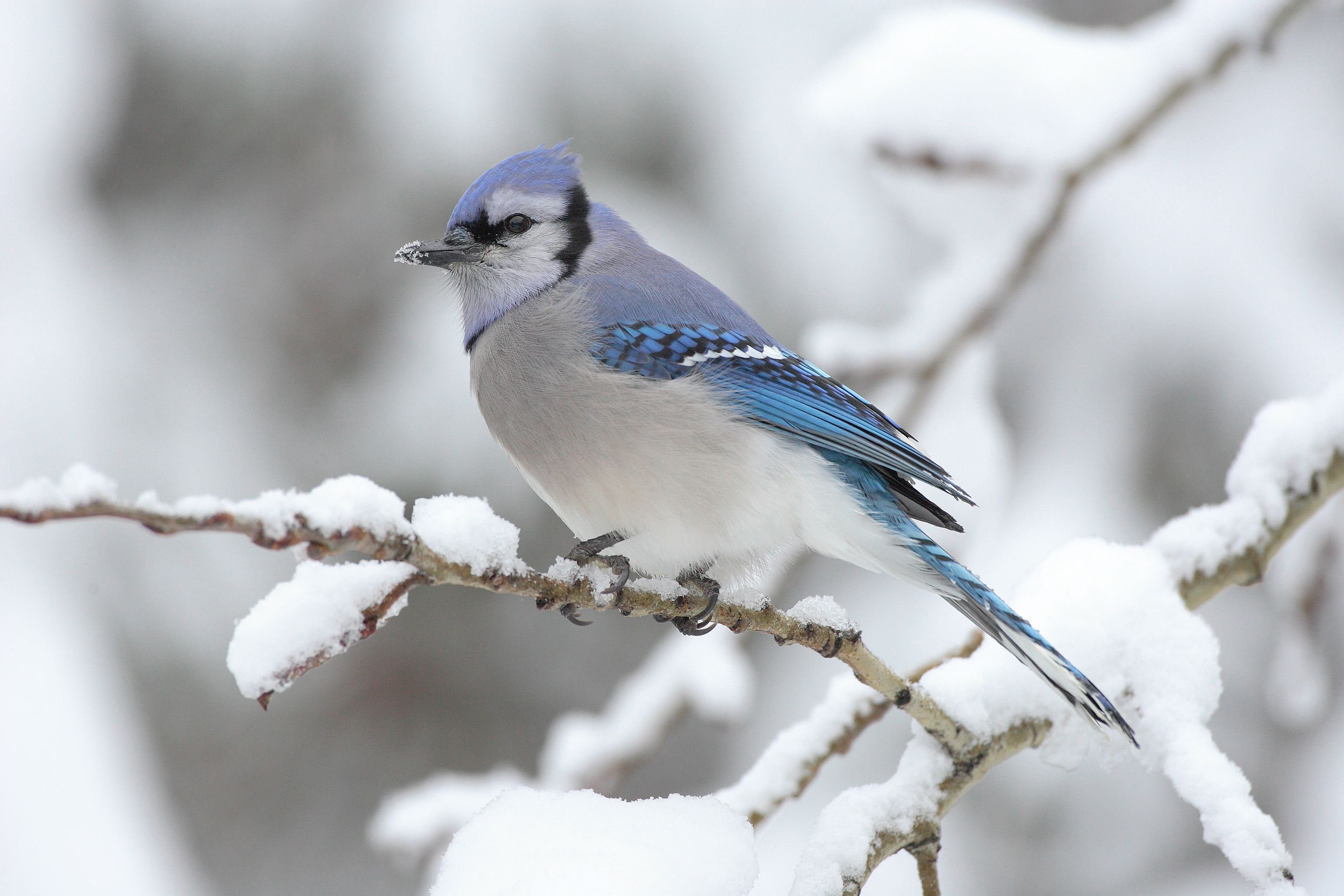 Blue Jay (Cyanocitta cristata) in Algonquin Provincial Park, Canada